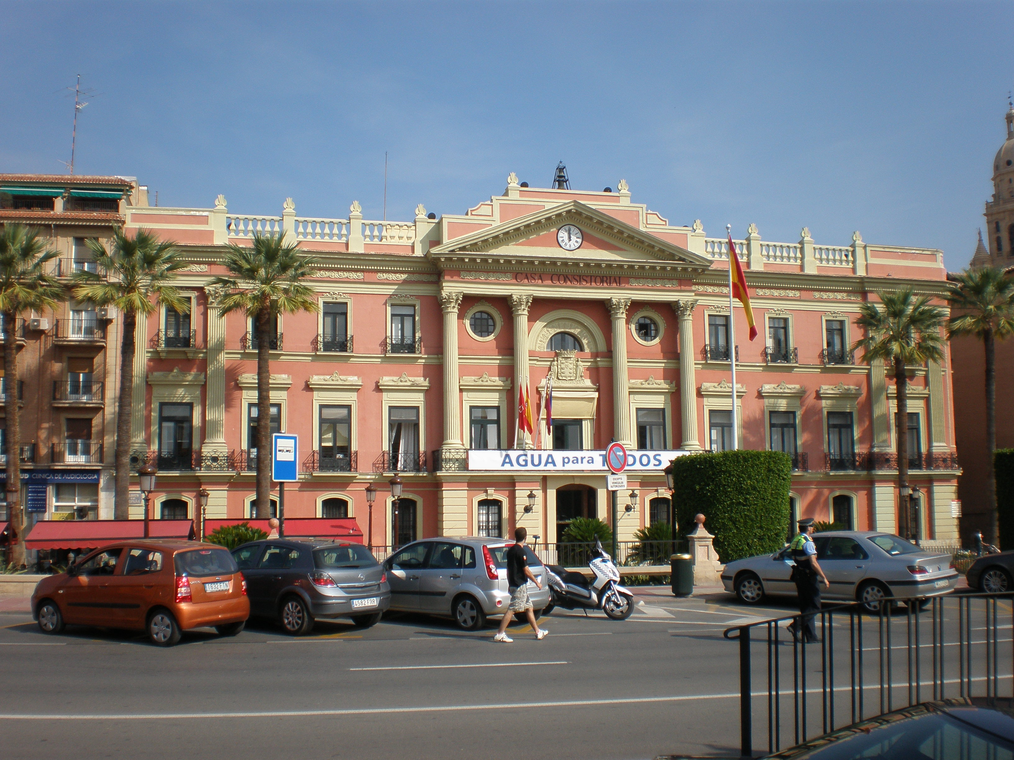 Murcia's town hall